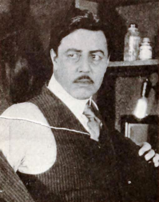 Still from the American film serial The Third Eye (1920) with Warner Oland, on page 96 of the June 26, 1920 Exhibitors Herald.